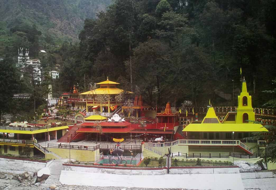 Kirateshwar Mahadev Temple is a Hindu temple, identified to be a Hindu pilgrimage site which is located at Legship, West Sikkim, India.